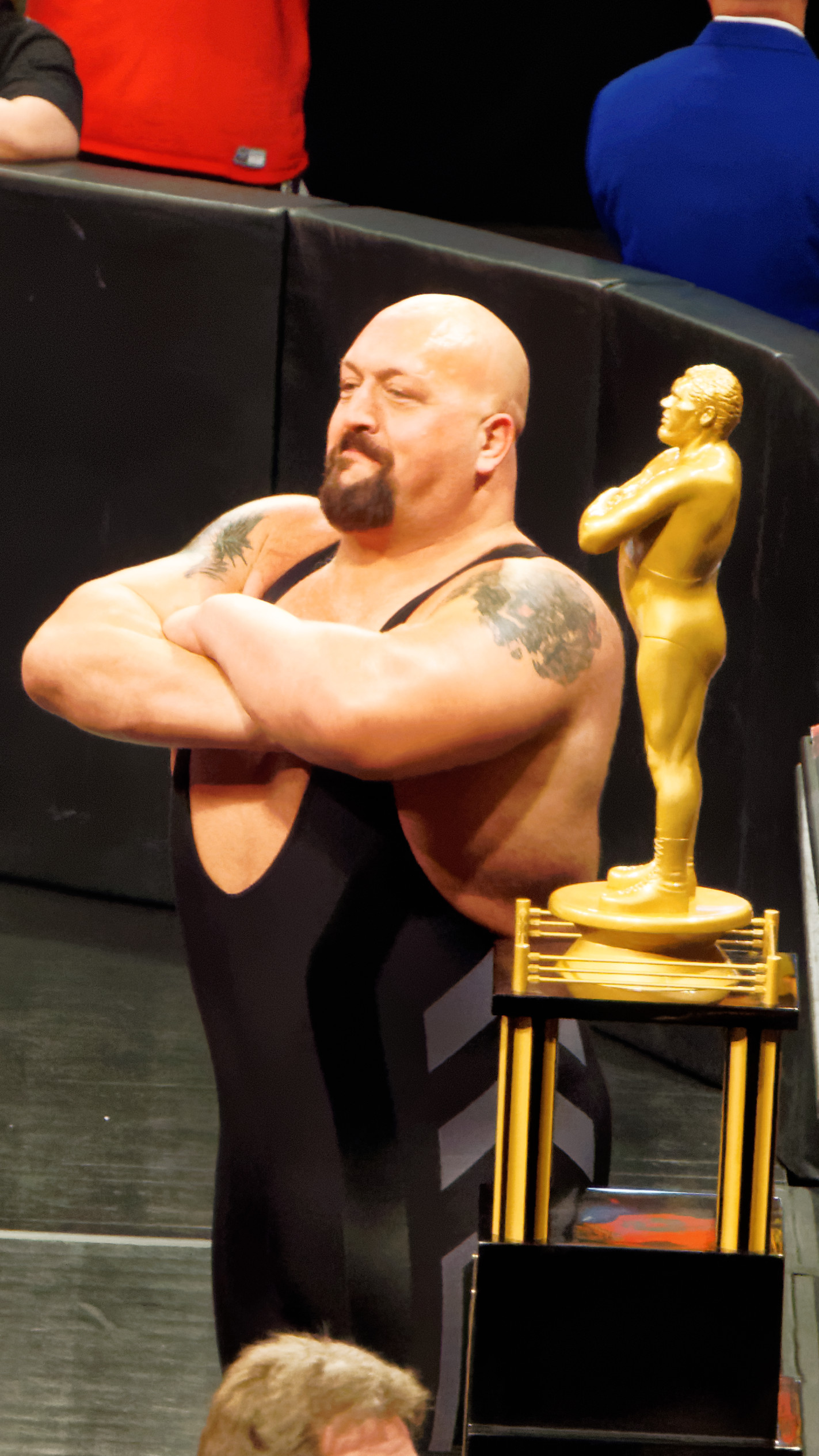 Big Show standing beside the Andre the Giant trophy at a WWE Raw event on March 30, 2015.